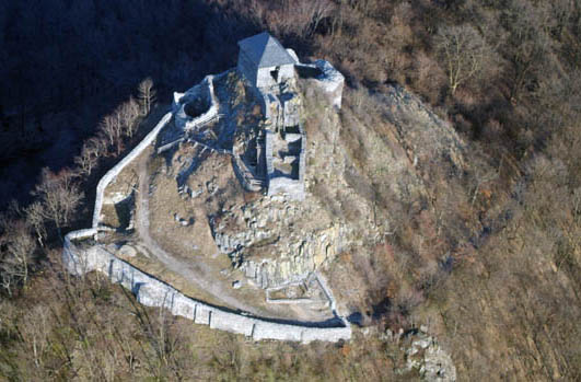 SAlgó Vára, castle, Salgóbánya, Hungary, aerial photography